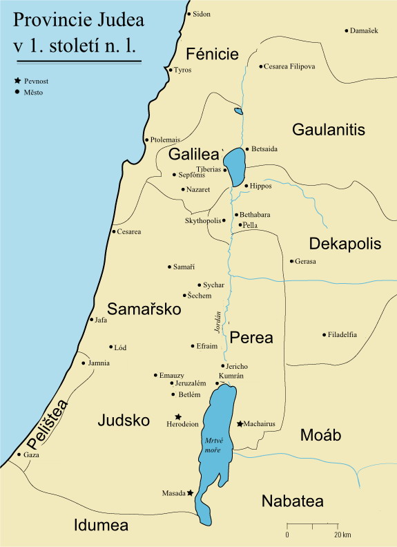 Iudaea Province in 1st century